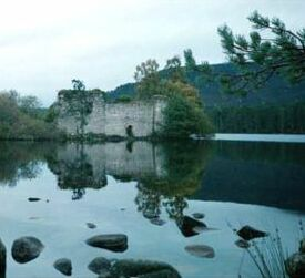 Castle ruins in Loch an Eilein on the Rothiemurchus Estate, near Aviemore, Scotland. Thought to have bee built in the late 12th century by the Wolf of Badenoch, it was also used in the 17th century by Jacobites retreating from Cromdale.